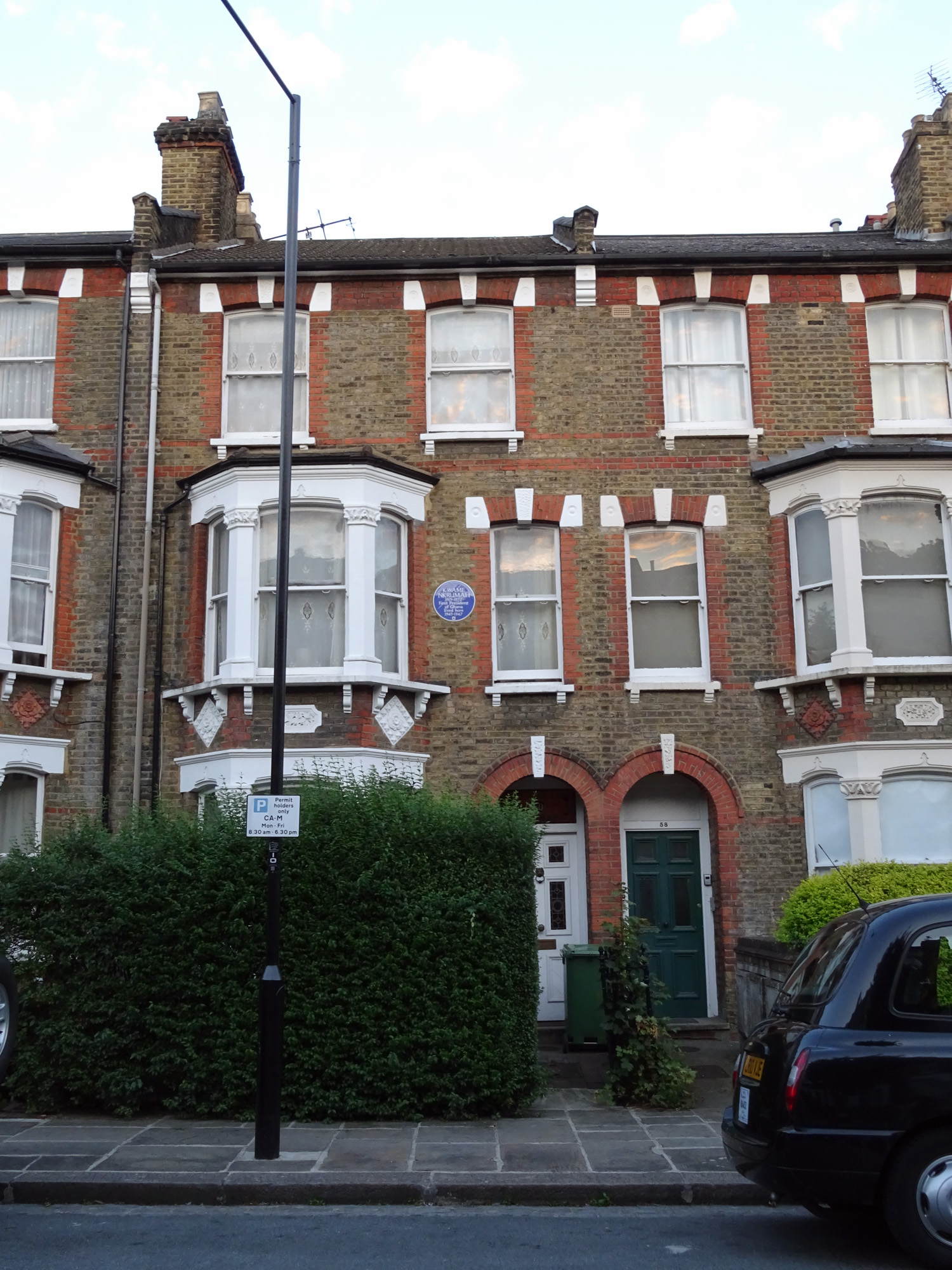 KWAME NKRUMAH 1909-1972 First President of Ghana lived here 1945-1947